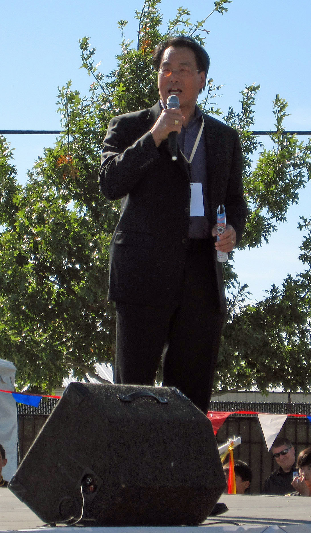 Joe Chow, mayor of Addison, Texas